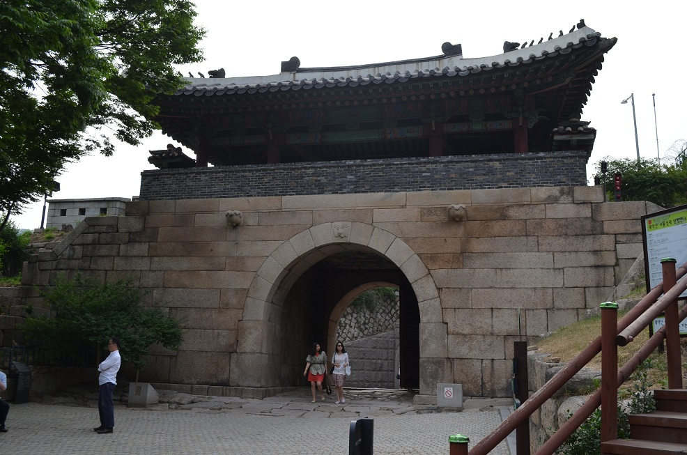 Changuimun Gate, also known as Northwest Gate or Buksomun, Seoul, South Korea. Photographed June 6, 2012. Photo shows visitors walking under the gate.